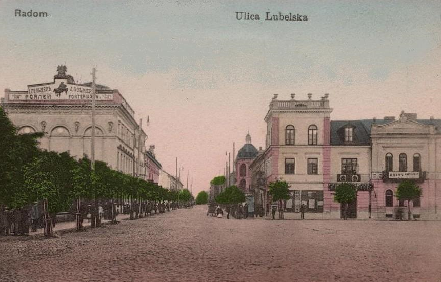 Lubelska (Żeromskiego) Street in Radom, Poland (19th c.)